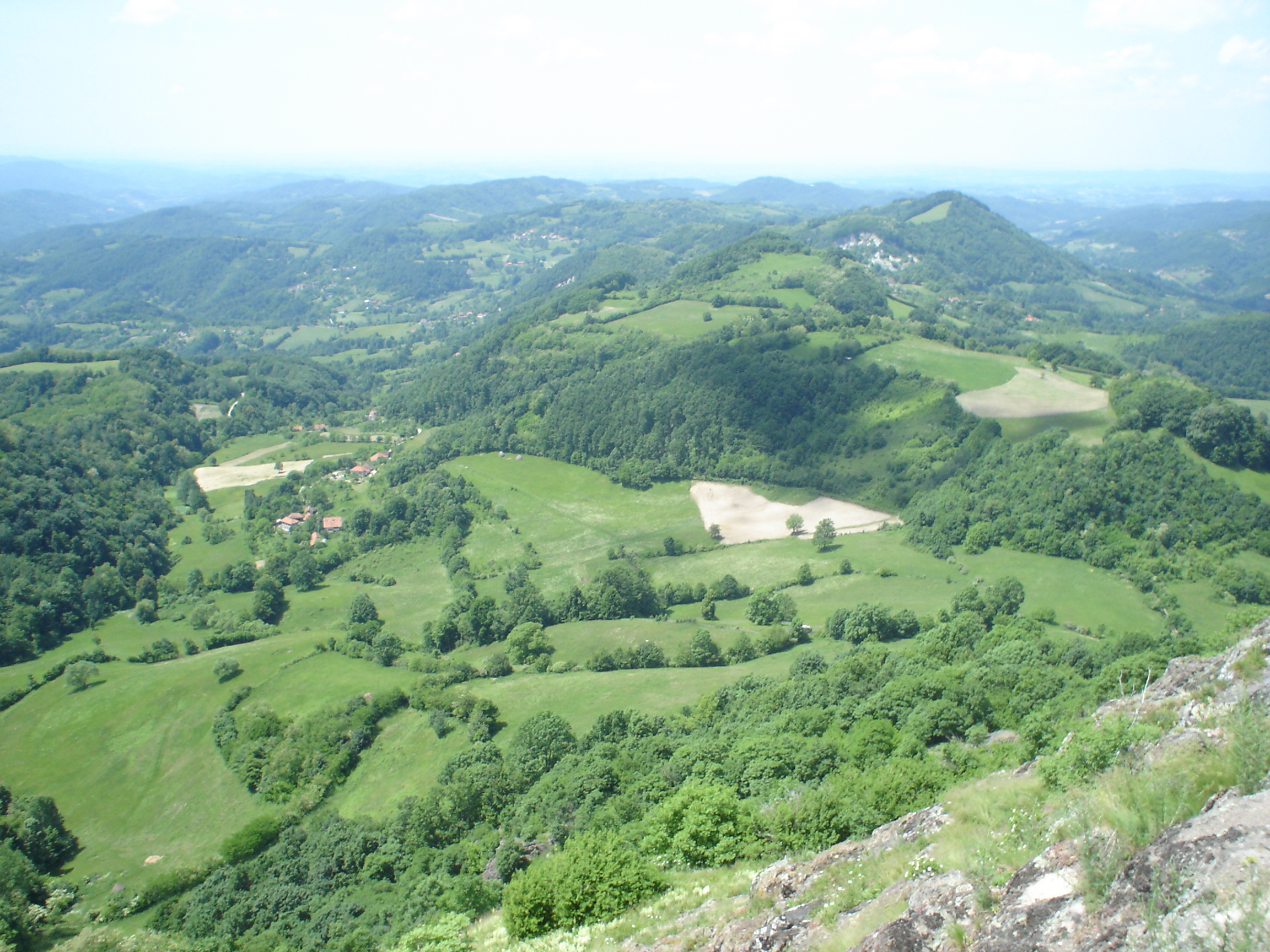 View to the north-west from Ostrvica, Rudnik, Serbia.